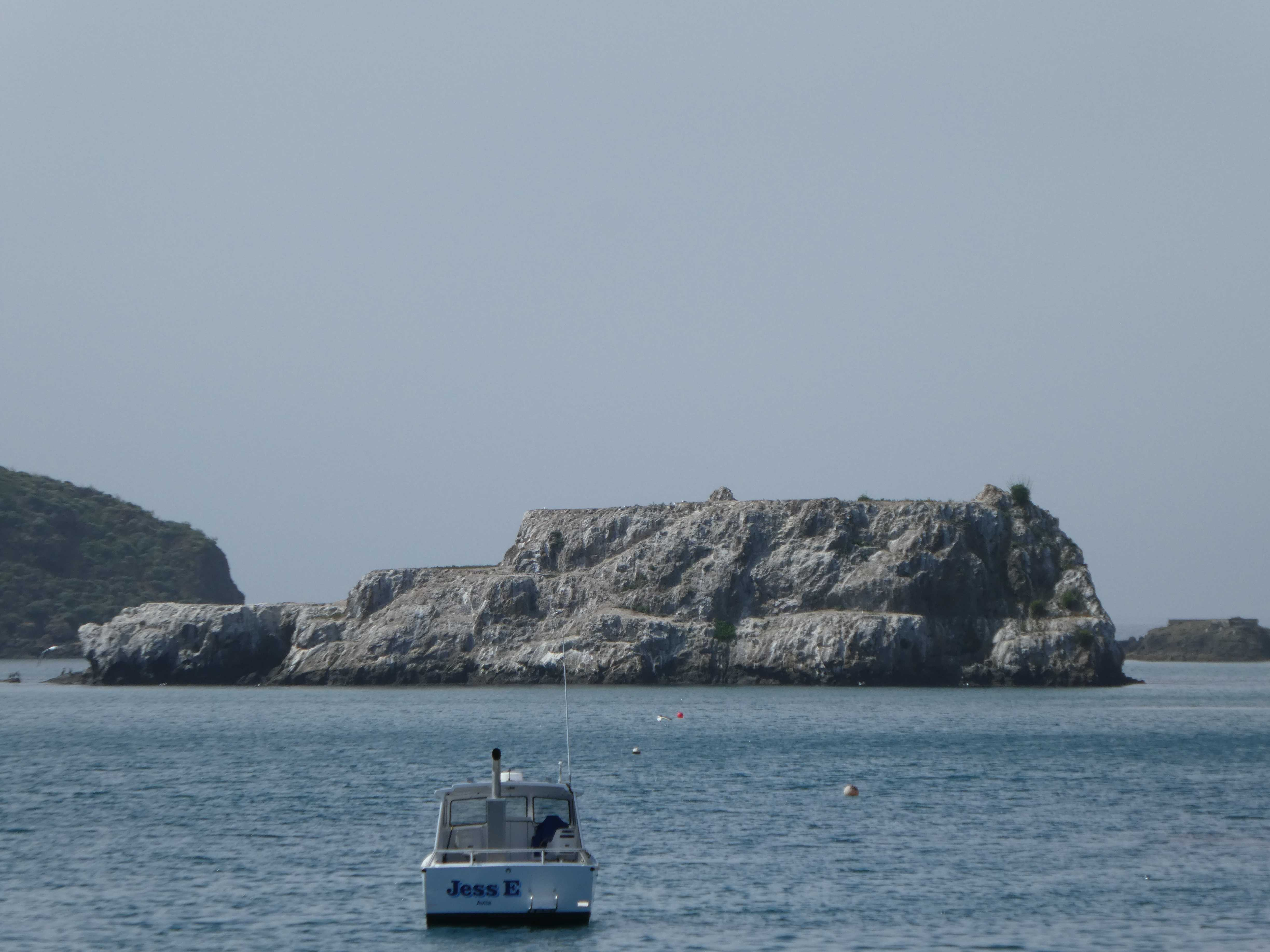 Smith Island in San Luis Bay (Avila Beach)